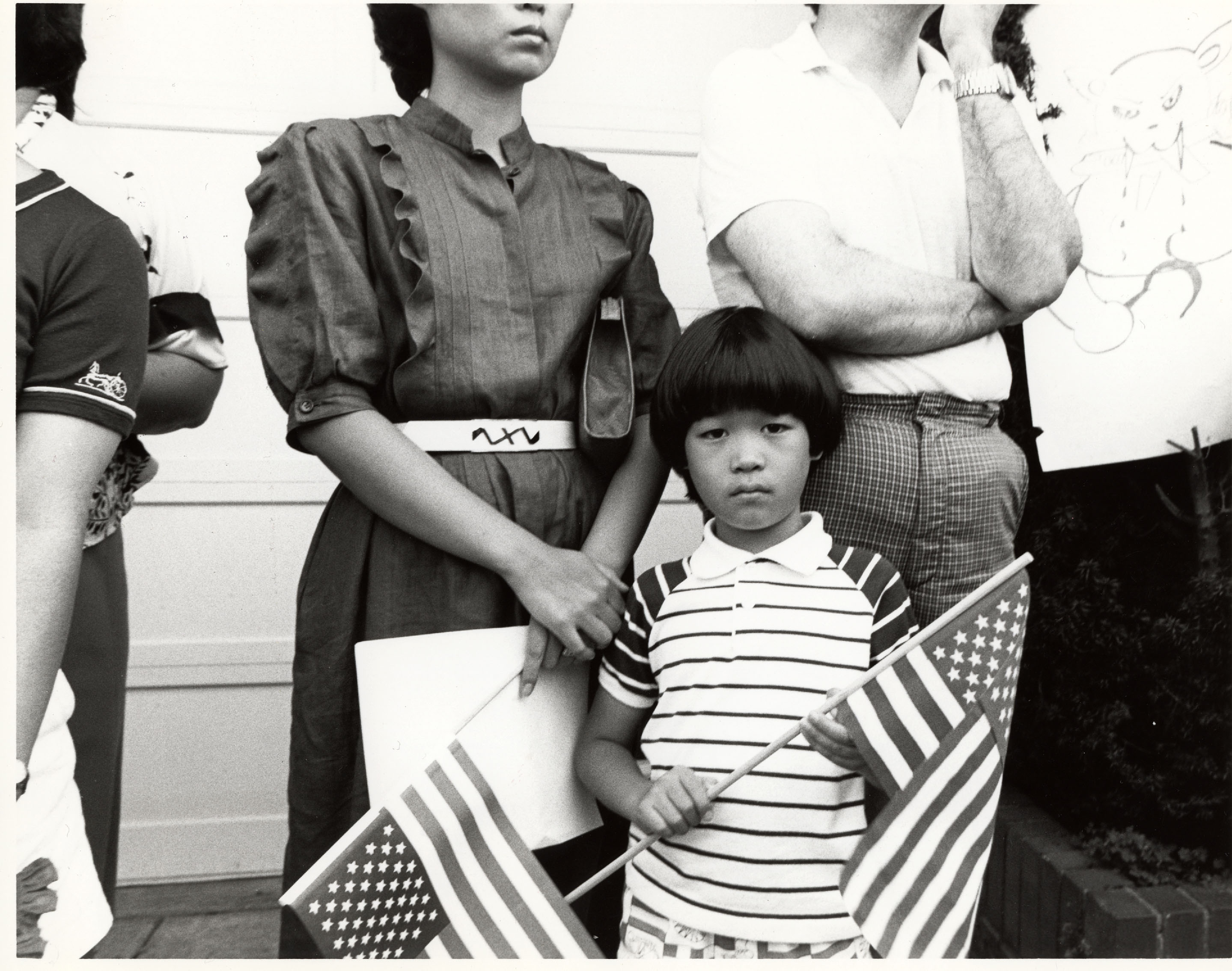 Boy with American flag in San Francisco, late '70s